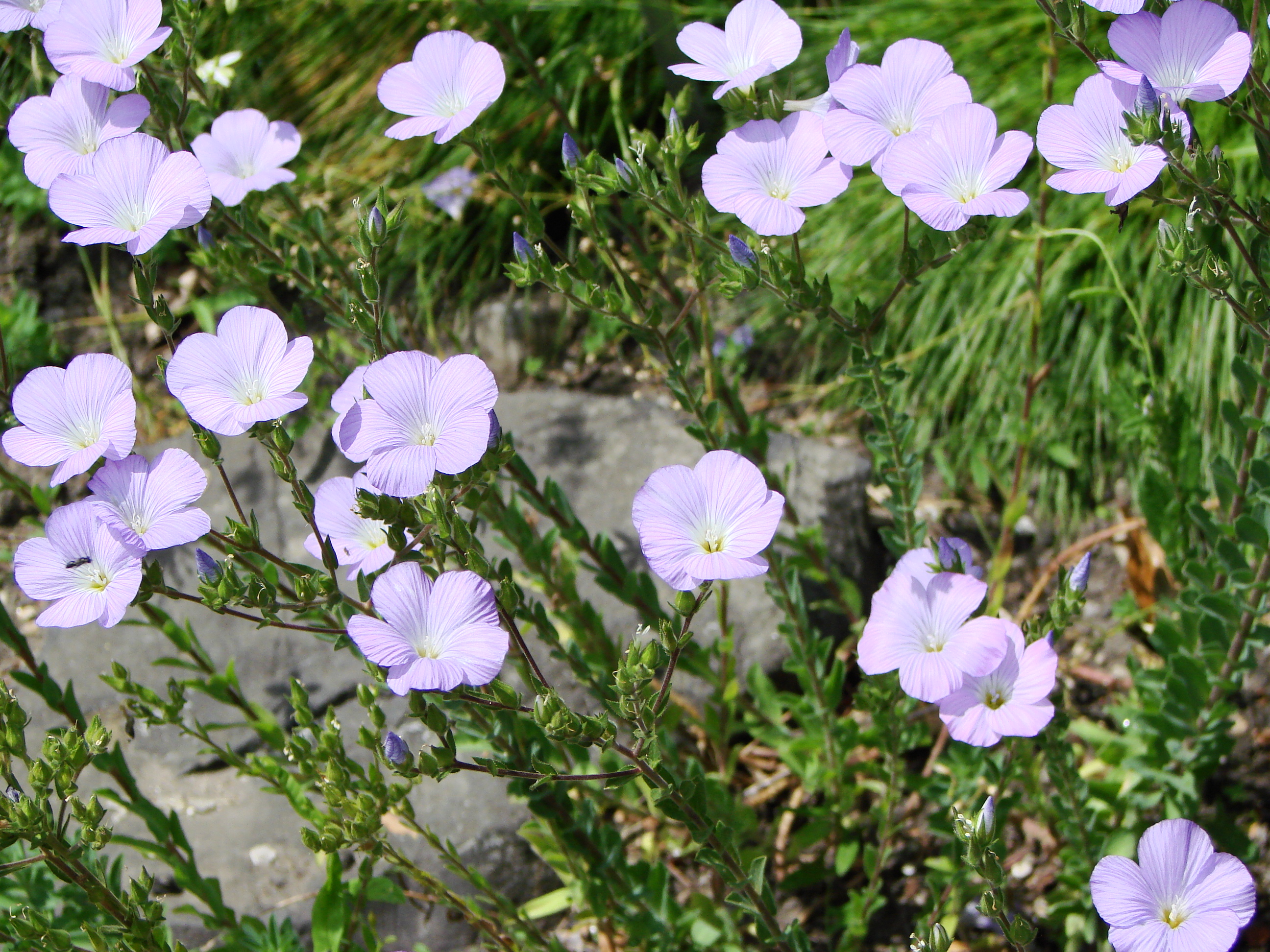 Picture taken in the university botanical garden of Wrocław (Poland): Linum hirsutum L.